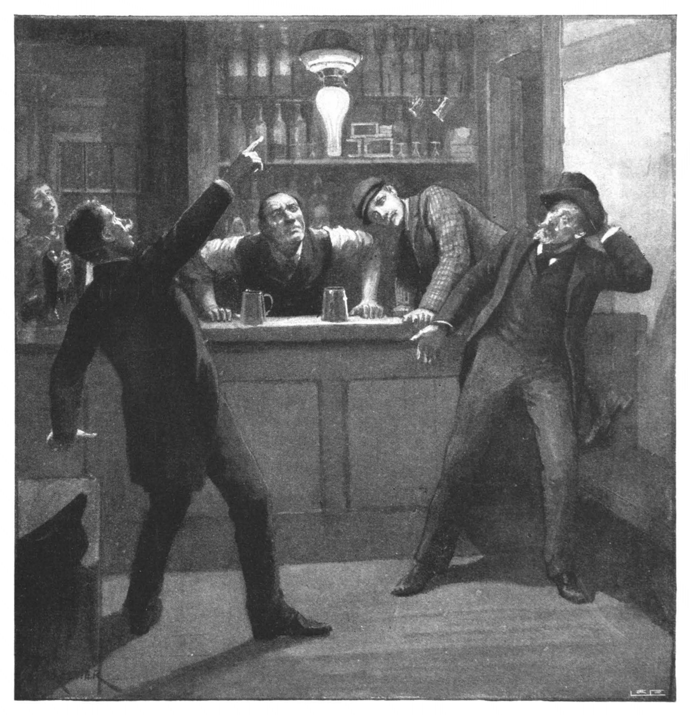 Illustration by Amédée Forestier from H.G. Wells' short story "The Man Who Could Work Miracles", published in The Illustrated London News; Summer 1898. Orginal caption / oryginalny opis